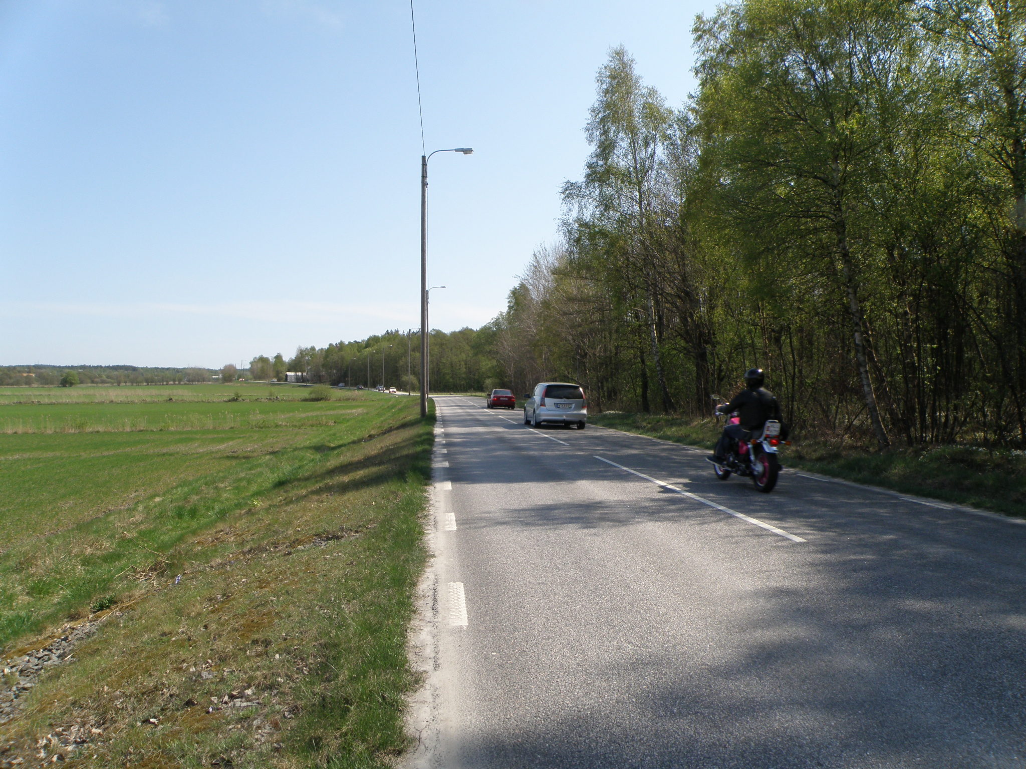 Björlandavägen at Lexby, Göteborg, Sweden